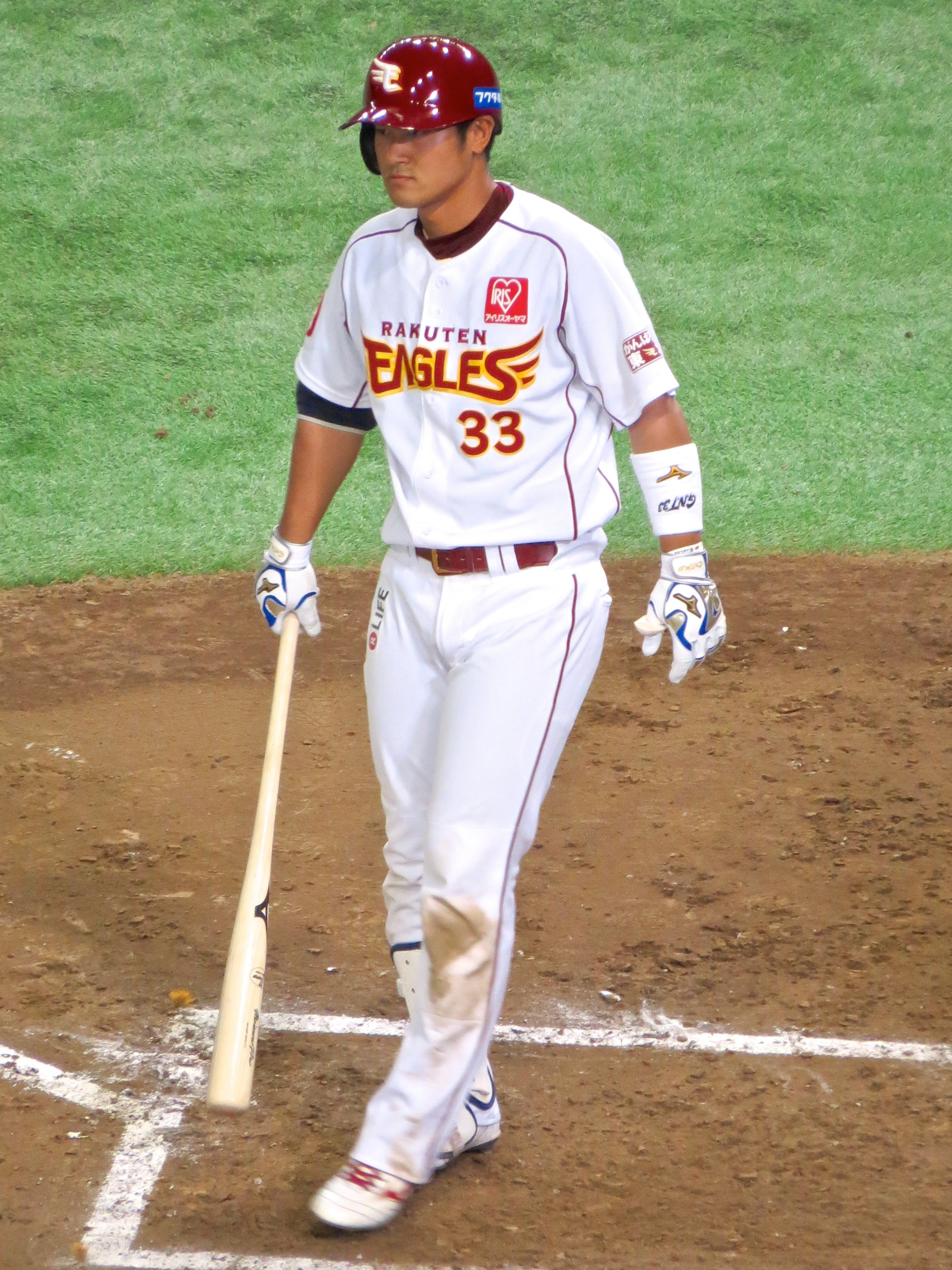 Ginji Akaminai, infielder of the Tohoku Rakuten Golden Eagles, at Tokyo Dome